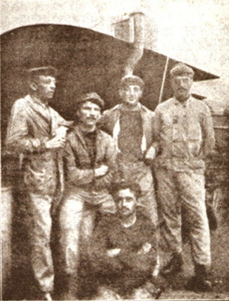 In 1919. Group of mutinous sailors in the Black Sea. French fleet.